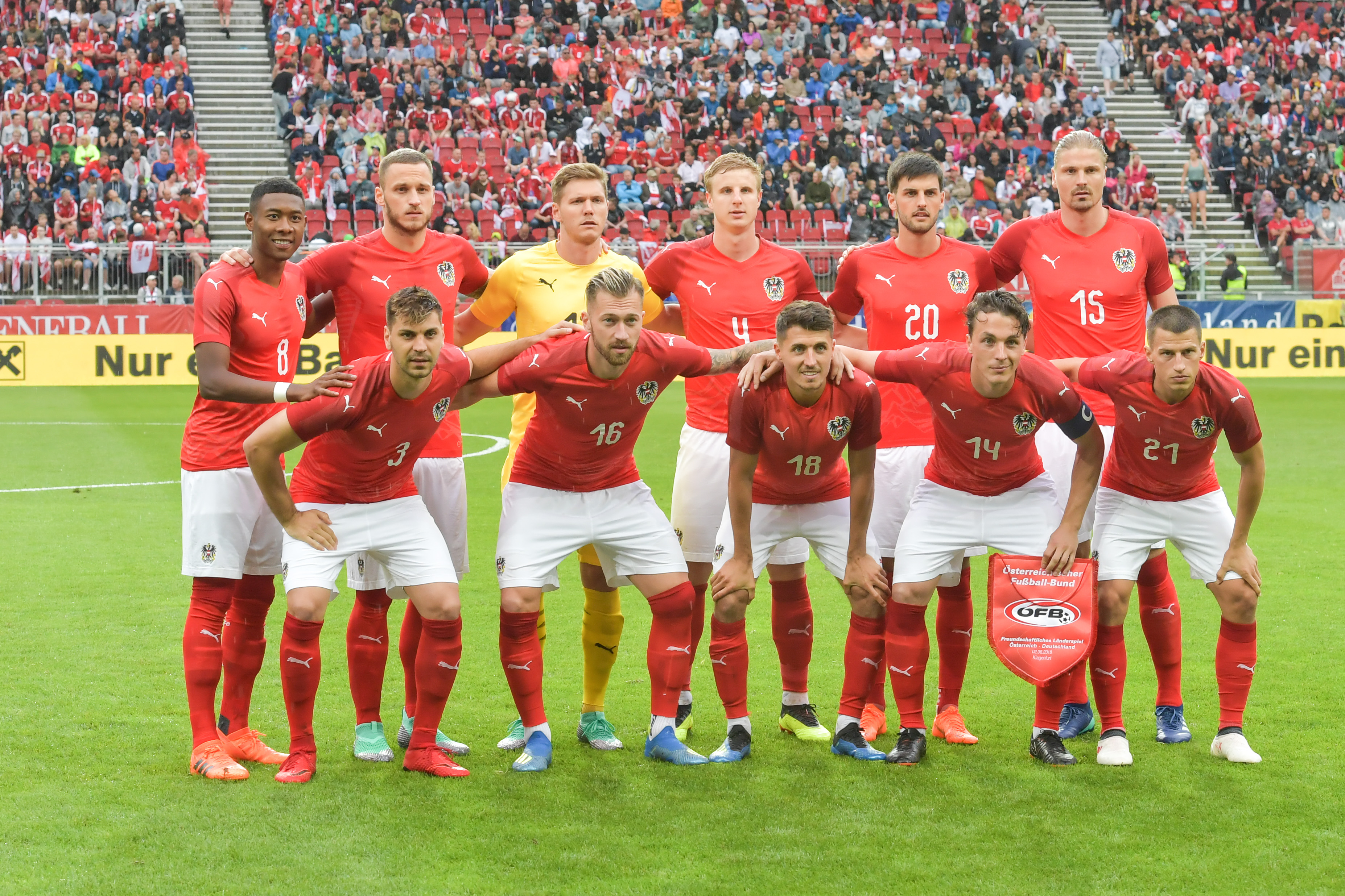 2/6/18, Klagenfurt, Austria, sports, football, International friendly - Austria vs Germany. Image shows the team of Austria - 2nd row f.l. David Alaba, Marko Arnautovic, Jörg Siebenhandl, Martin Hinteregger, Florian Grillitsch und Sebastian Proedl, first row f.l. Aleksandar Dragovic, Peter Zulj, Alessandro Schoepf, Julian Baumgartlinger und Stefan Lainer.